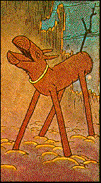 cropped illustration from The Marvelous Land of Oz